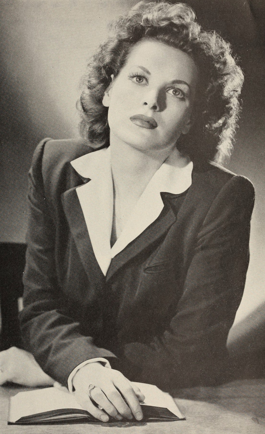 Maureen O'Hara in This Land Is Mine 1943